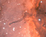 This image shows at the lower left the two jets from the embedded protostar Herbig-Haro 555 seen in the Pelican nebula. Extracted from the File:Changing Face of the North America Nebula.jpg from the Digitized Sky Survey and NASA's Spitzer Space Telescope. Colour is used to display different parts of the spectrum in each of these images. The combined visible/infrared image (upper left) shows visible light as blue, and infrared light as green and red.